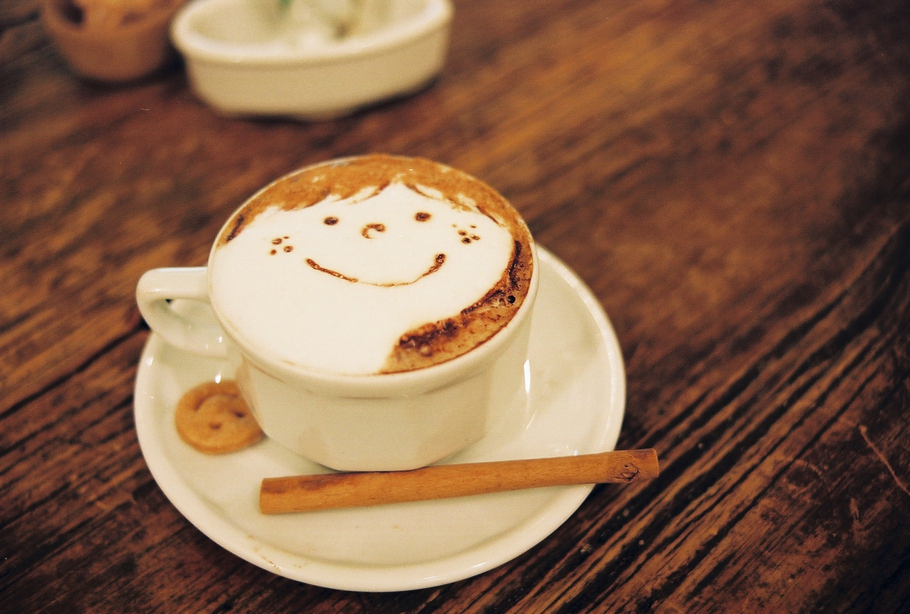 Cappuccino in Tokio.